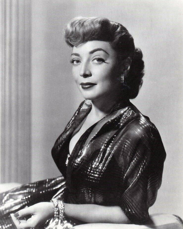 Publicity photo of Marie Windsor for the United Artists feature The Killing